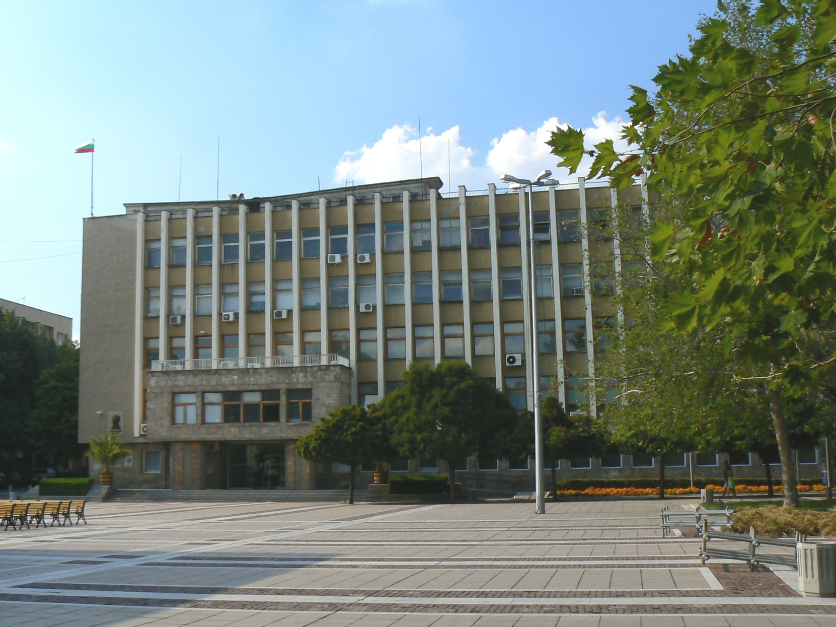 Building of Haskovo District administration in Haskovo, Bulgaria